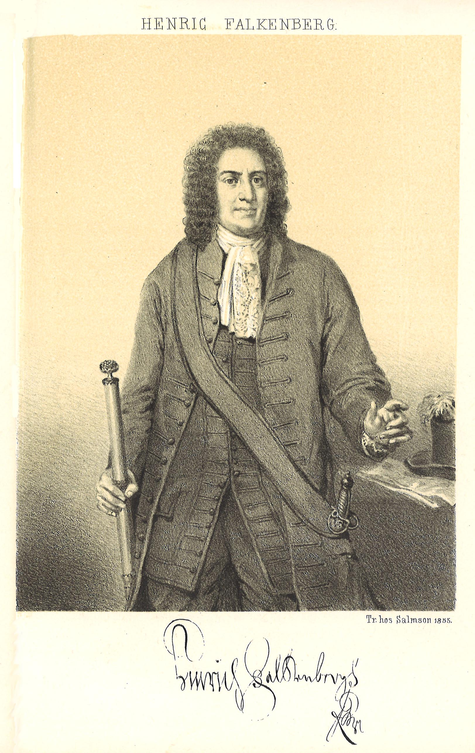 Henrik Falkenberg (1634-1691), Swedish nobleman, civil servant, county governor and "lantmarskalk" (chairman of the estate of nobility).